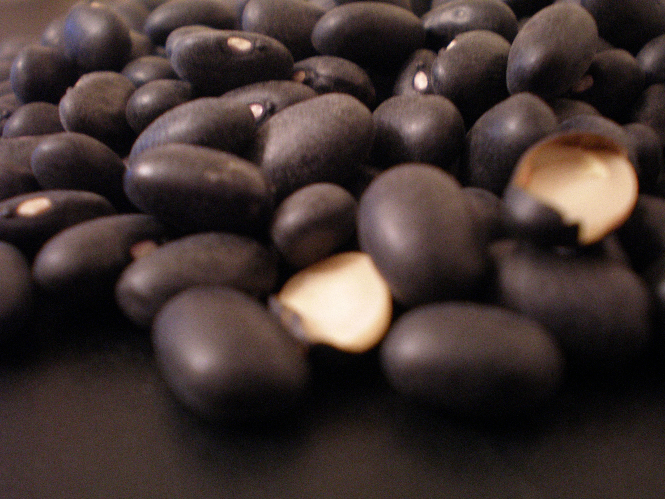 bean, black bean, turtle bean